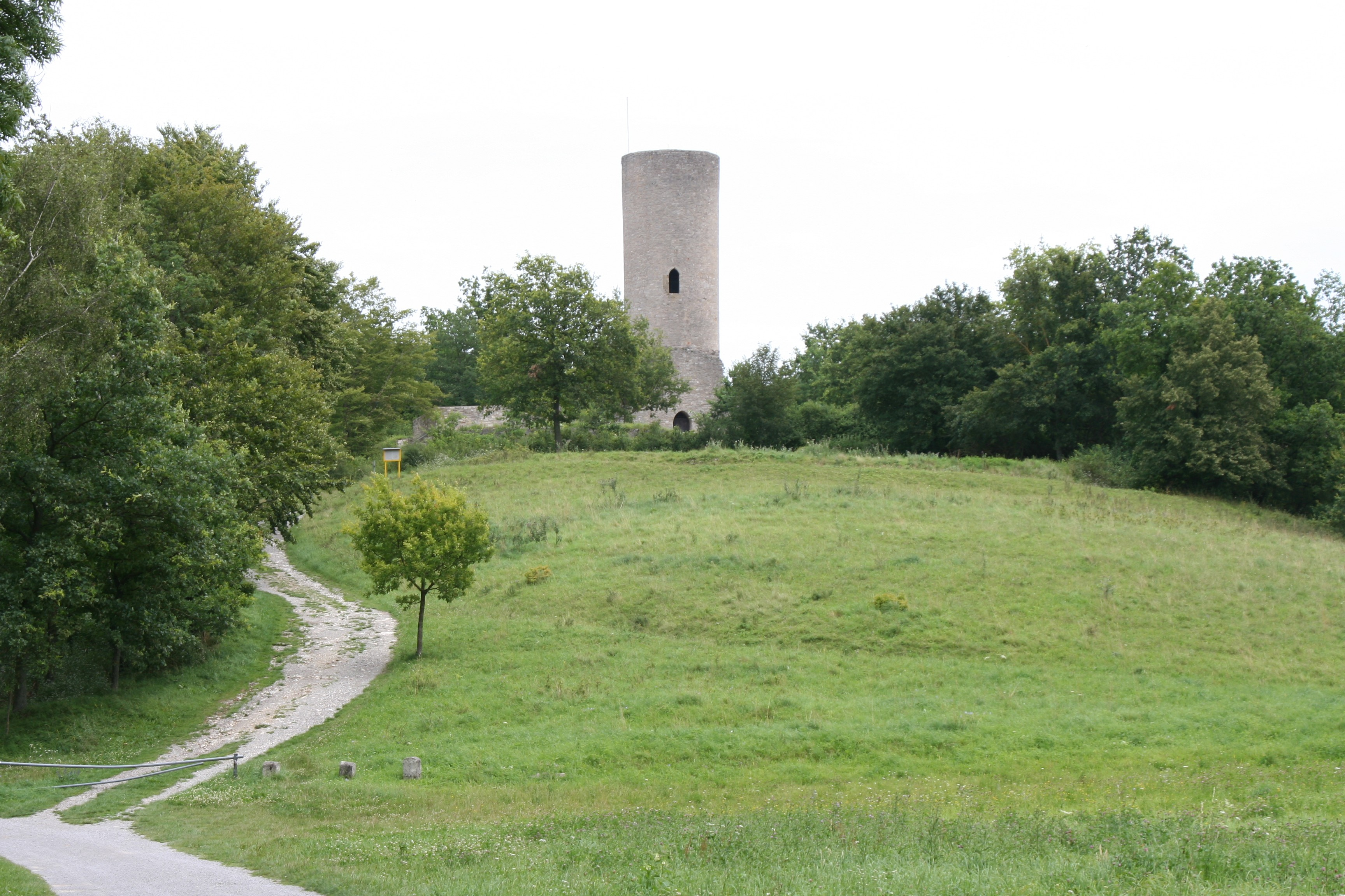 Castle ruin Reichelsburg from the West